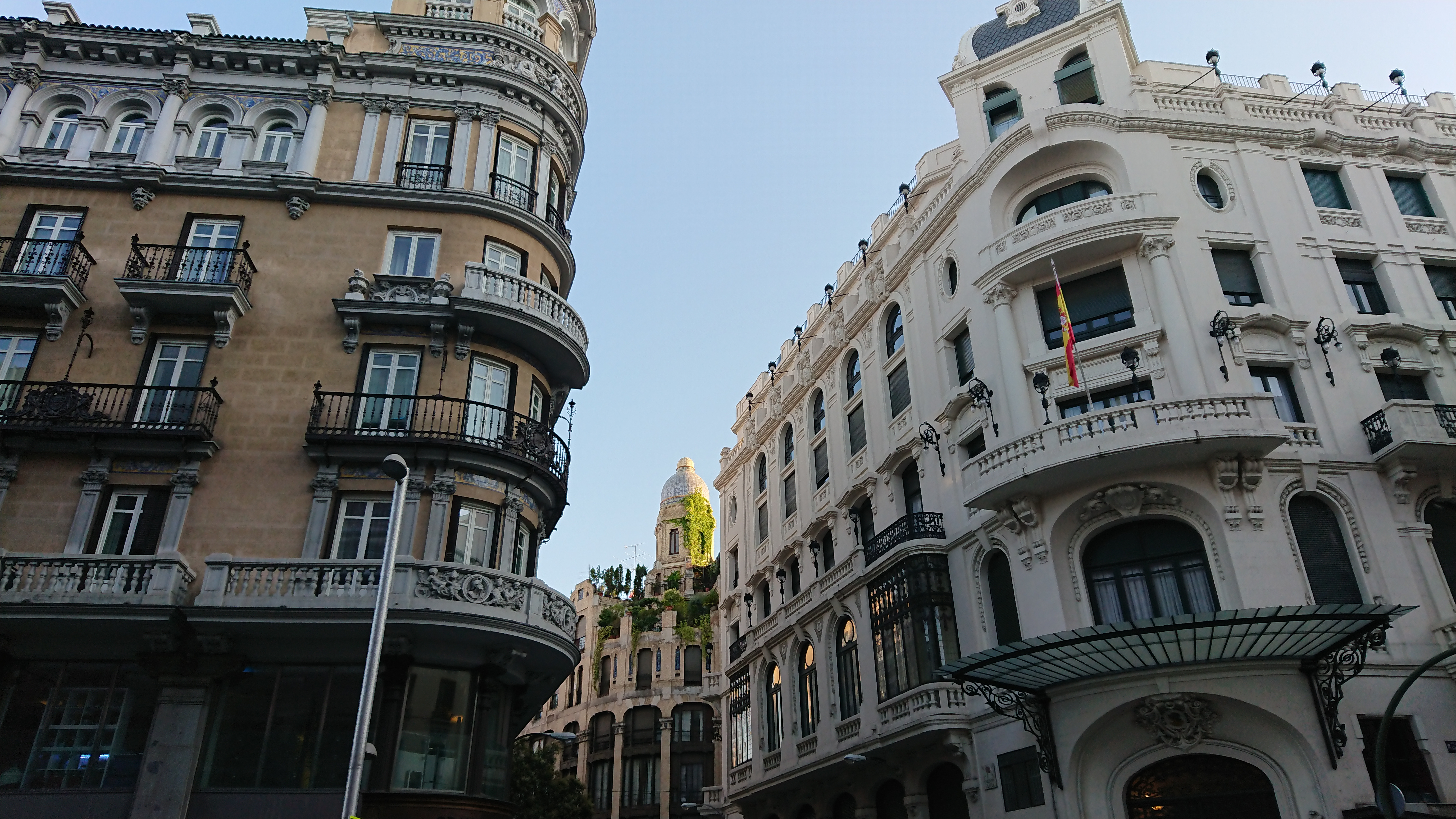 Gran Vía, Madrid (Spain)